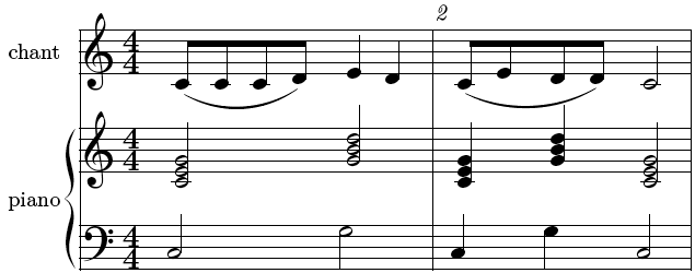 French song Au clair de la Lune generated by LaTeX with MusiXTeX